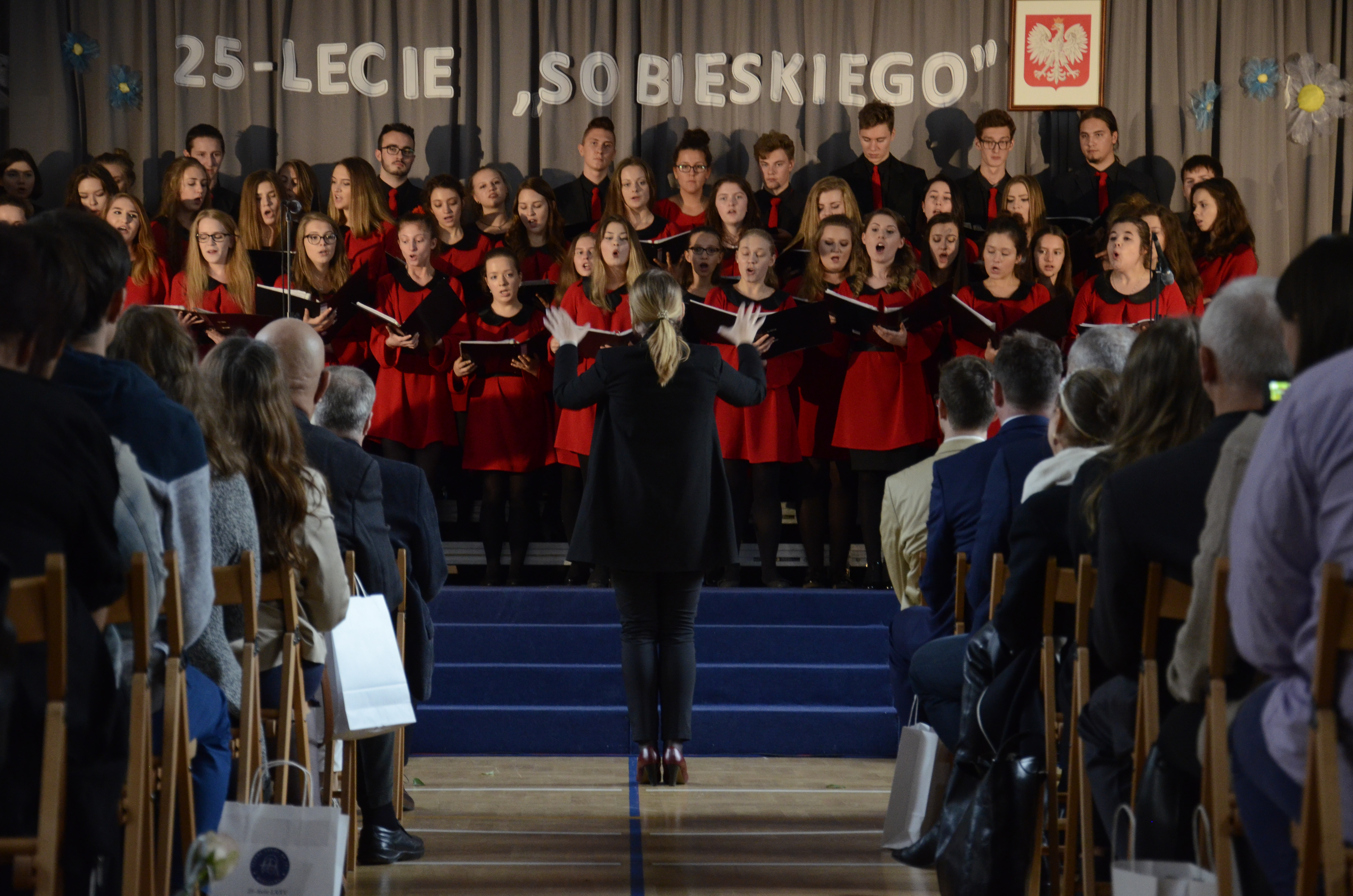 Choir of LXXV Sobieski Highschool in Warsaw Poland